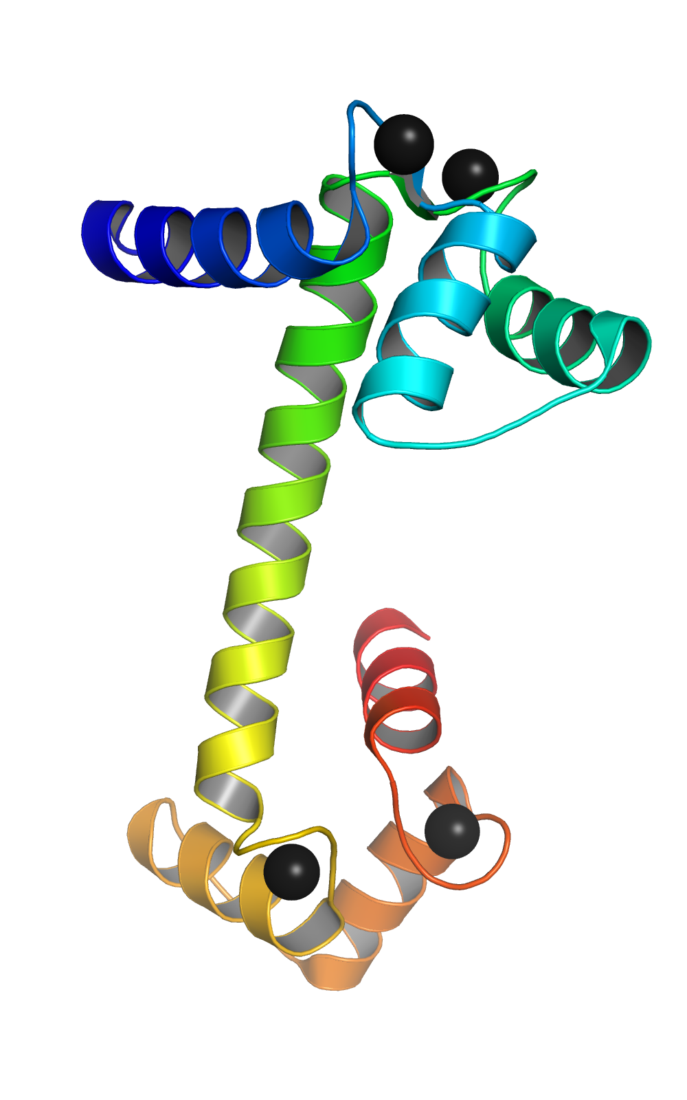 Calmodulin structure with Ca2+ (PDB id: 1EXR). This figure was made by PyMol. The Ca2+ without biological relevant did not show in the figure.